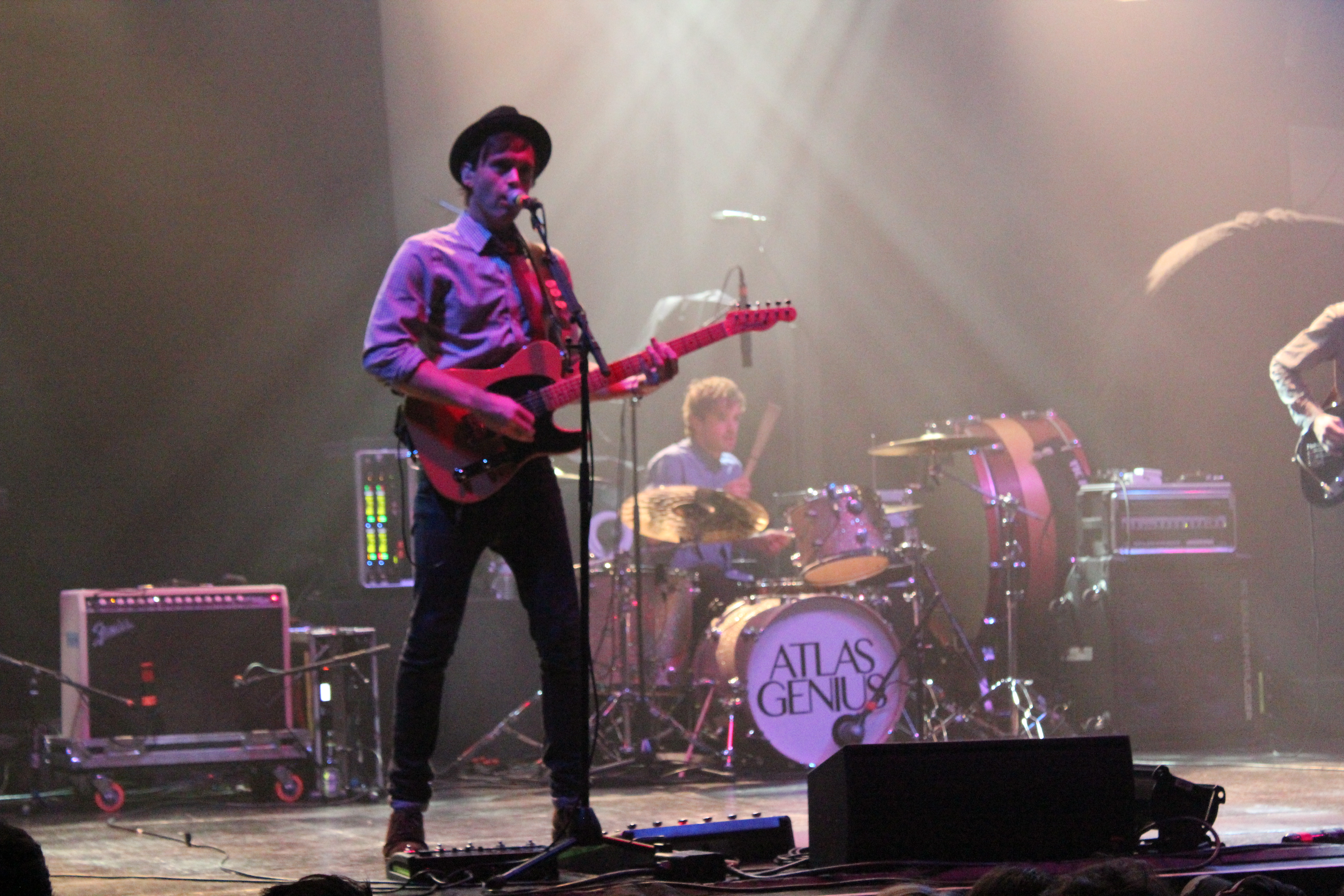 Australian band Atlas Genius live in concert, 2013